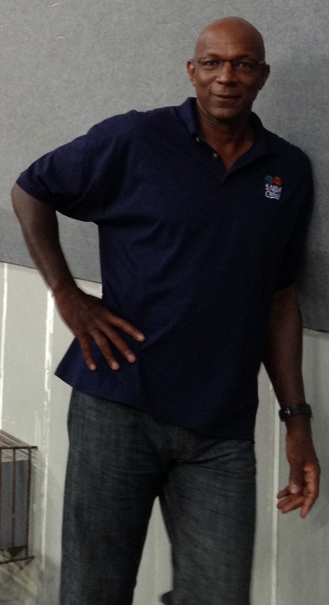 Clyde Drexler poses during NBA Global Games in the Philippines on October of 2013.